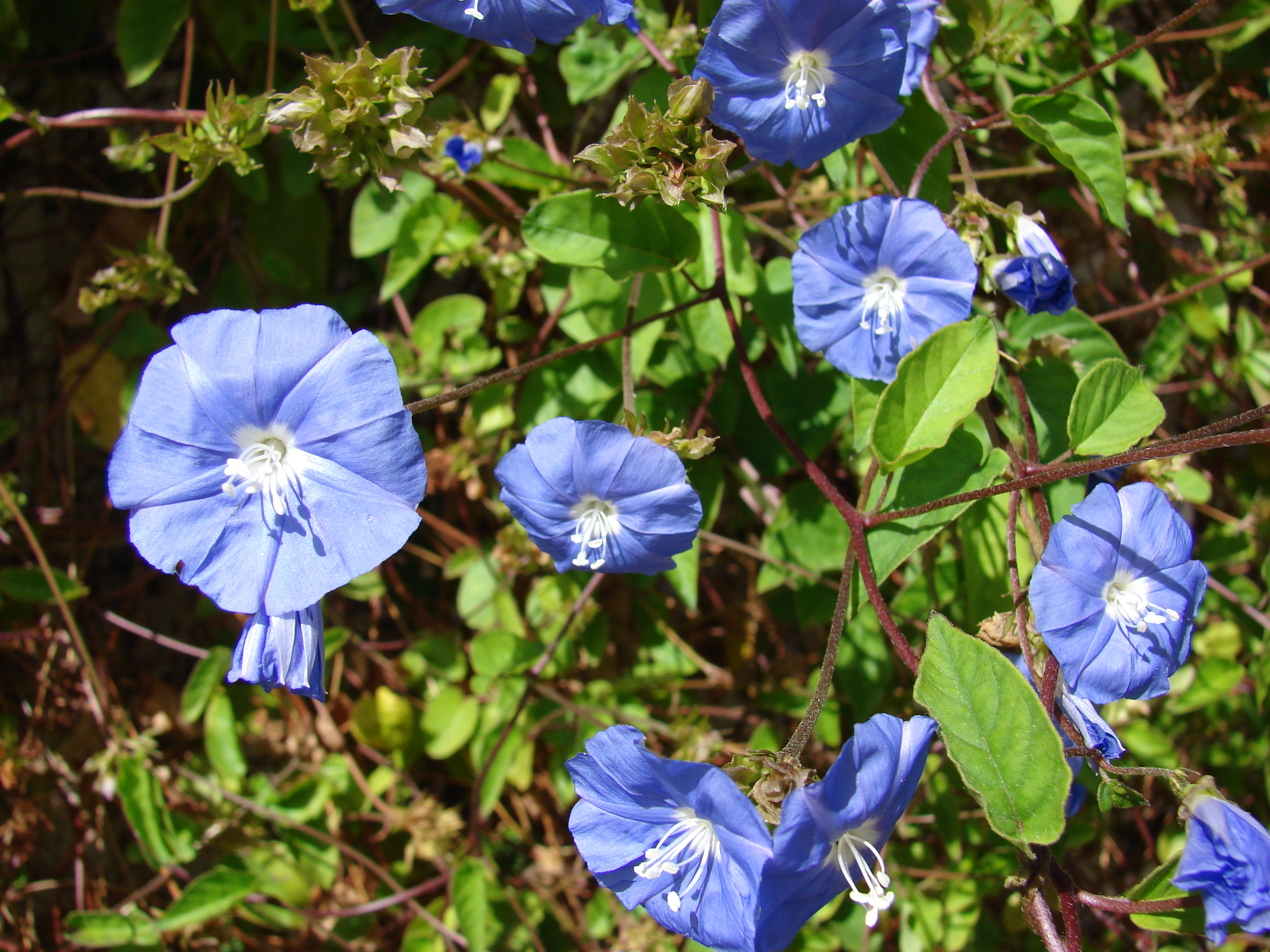 Jacquemontia pentantha (flowers). Location: Maui, Enchanting Gardens of Kula